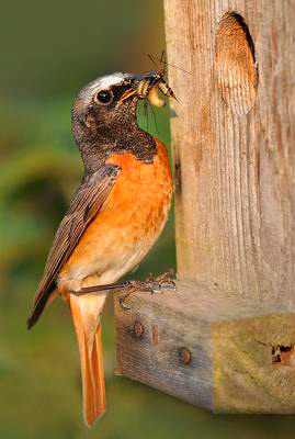 male Common Redstart, feeding